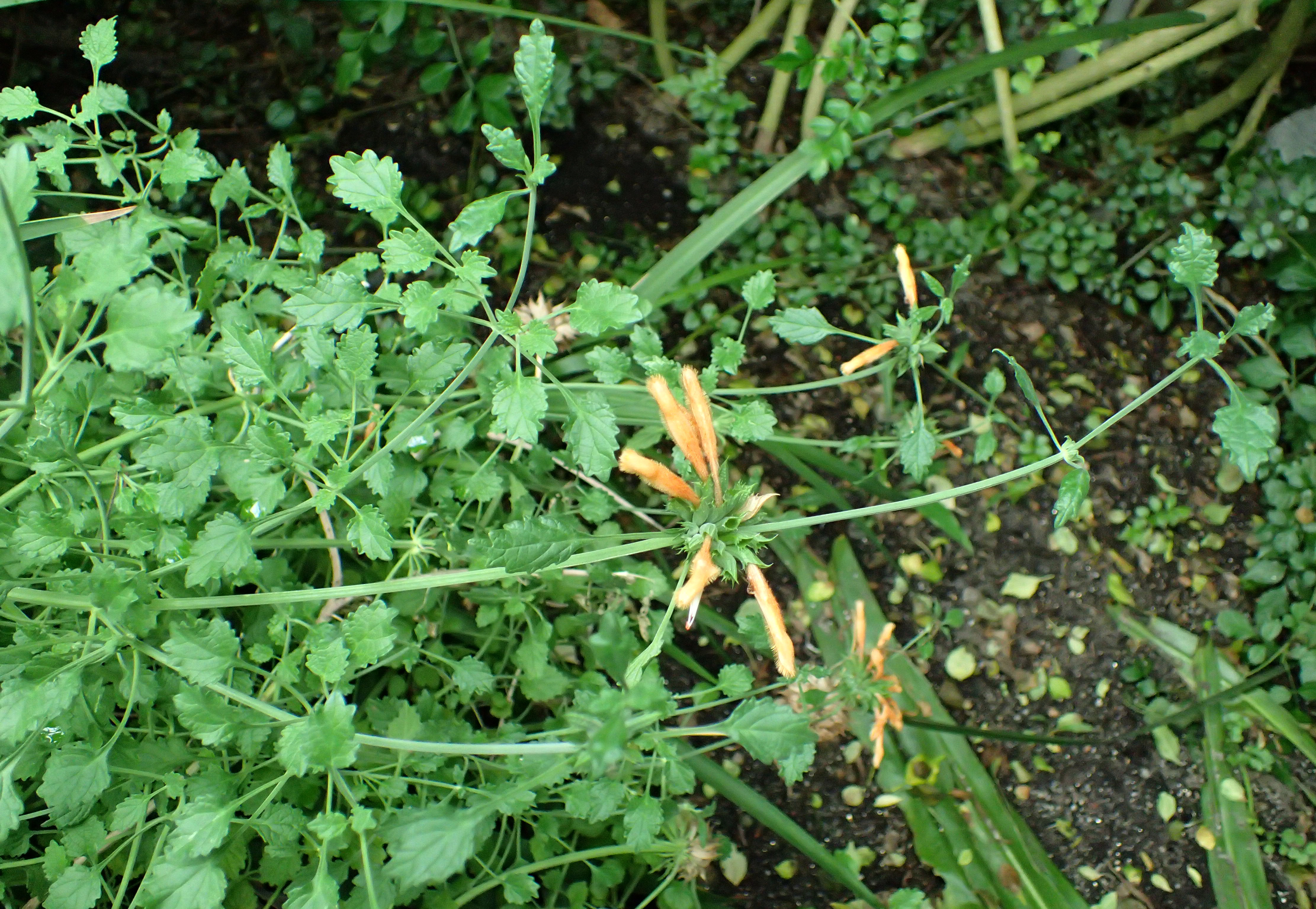 Leonotis ocymifolia (labelled as Leonotis menthifolia) in the Brooklyn Botanic Garden